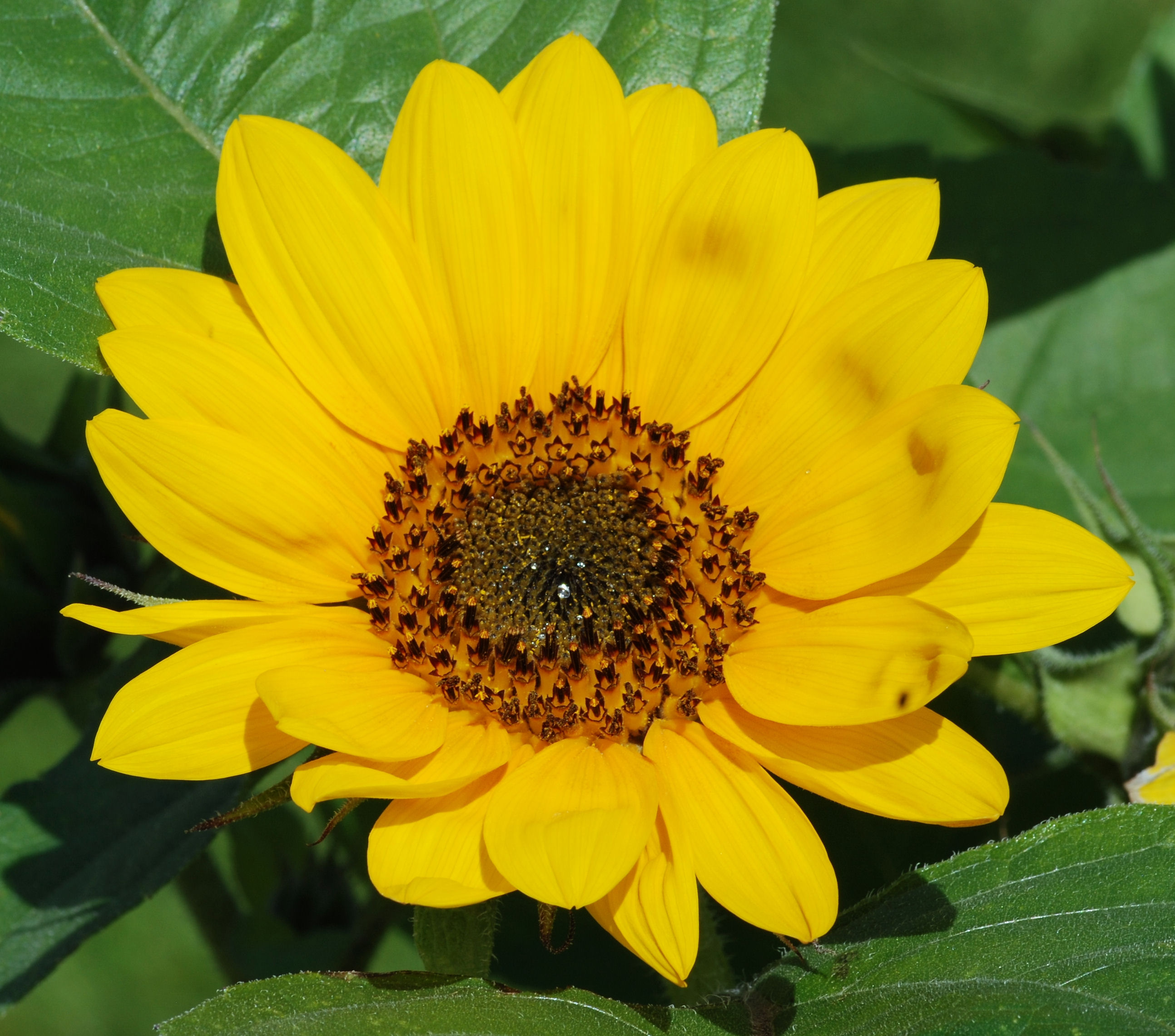 Sunflower (Helianthus annuus). Jardin des Plantes, Paris The image was cropped by davefoc for use in the English Wikipedia Pseudanthia article